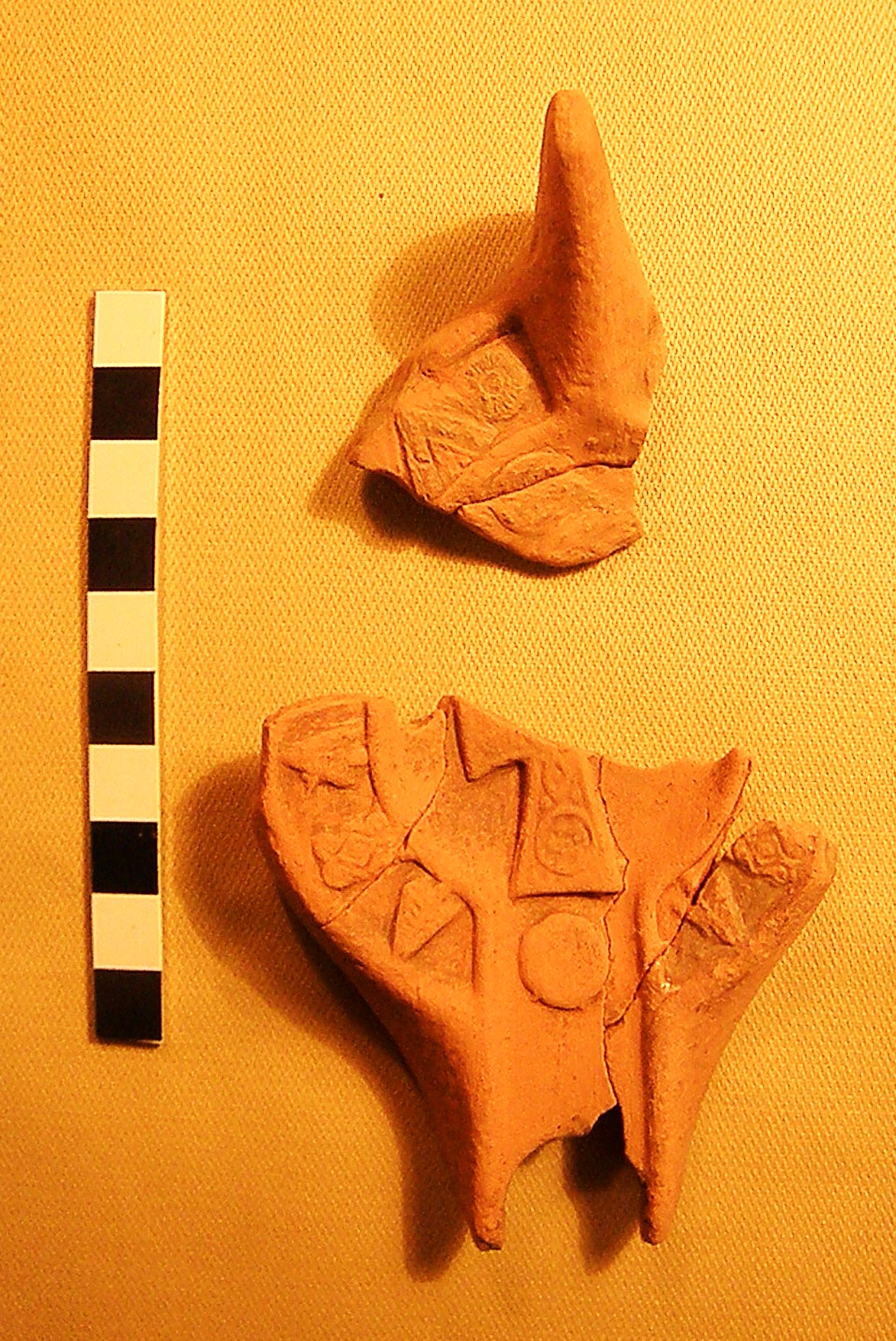 Early Christian oil lamp from Africa, type Hayes II, found in the Roman city of Sanisera.